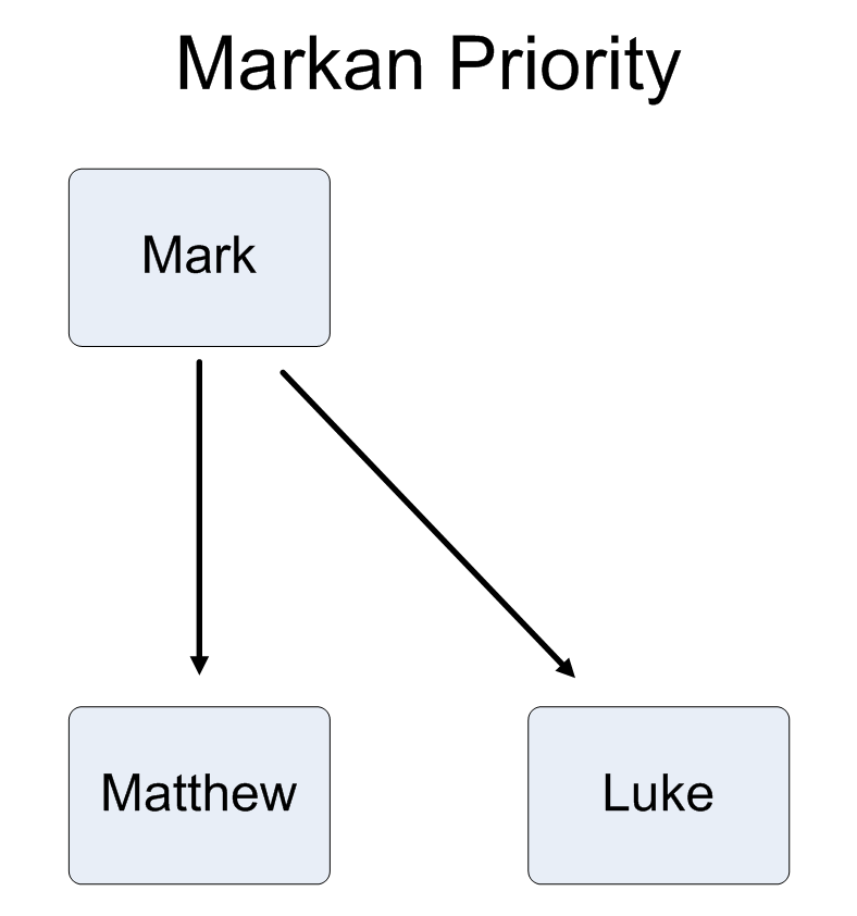 The Two Source hypothesis solution to the Synoptic problem